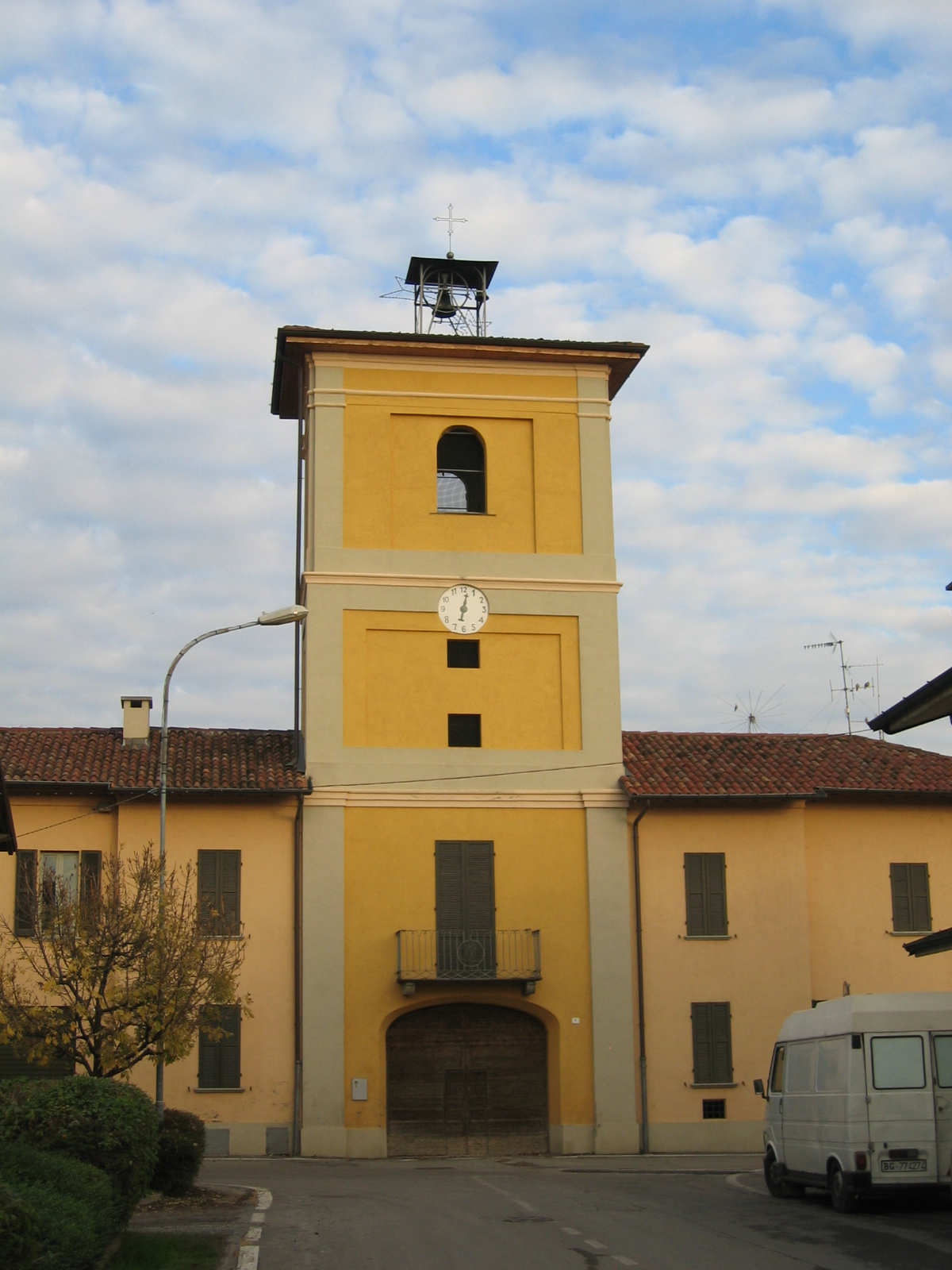 Clocktower of Castel Cerreto, Treviglio